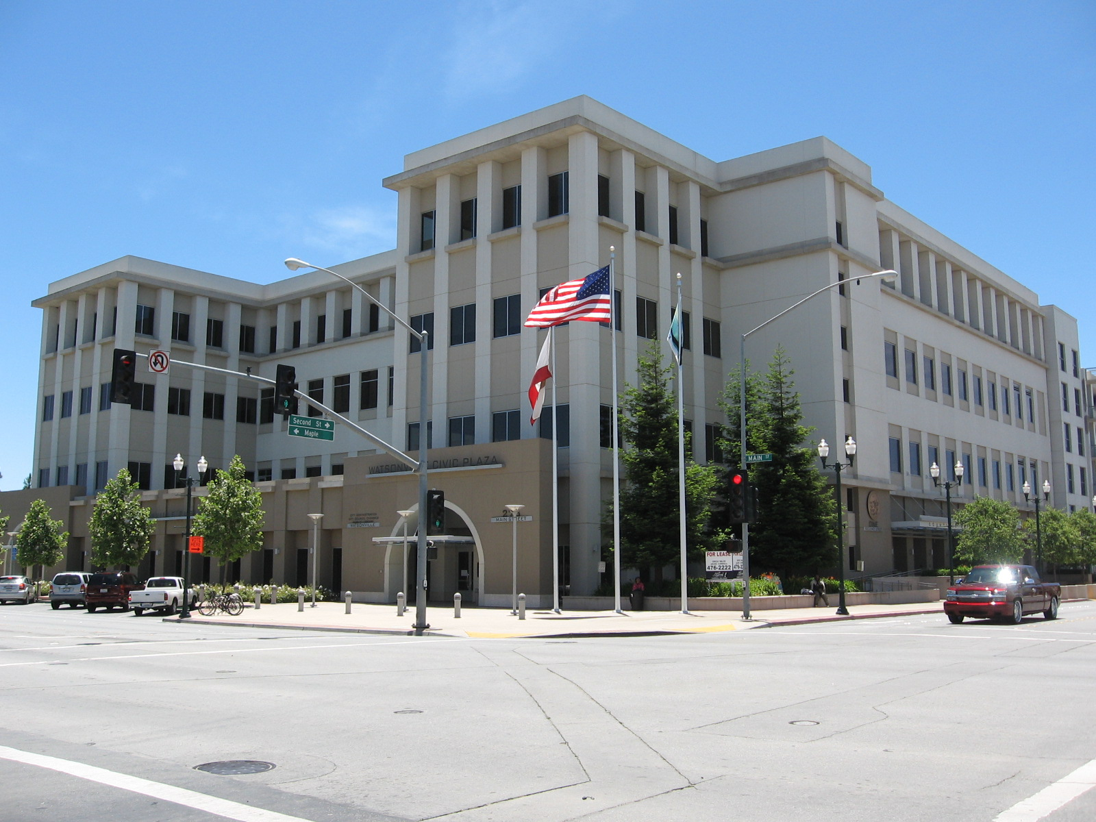 Photograph taken from the corner of Main St. and Maple St. in Watsonville, California.